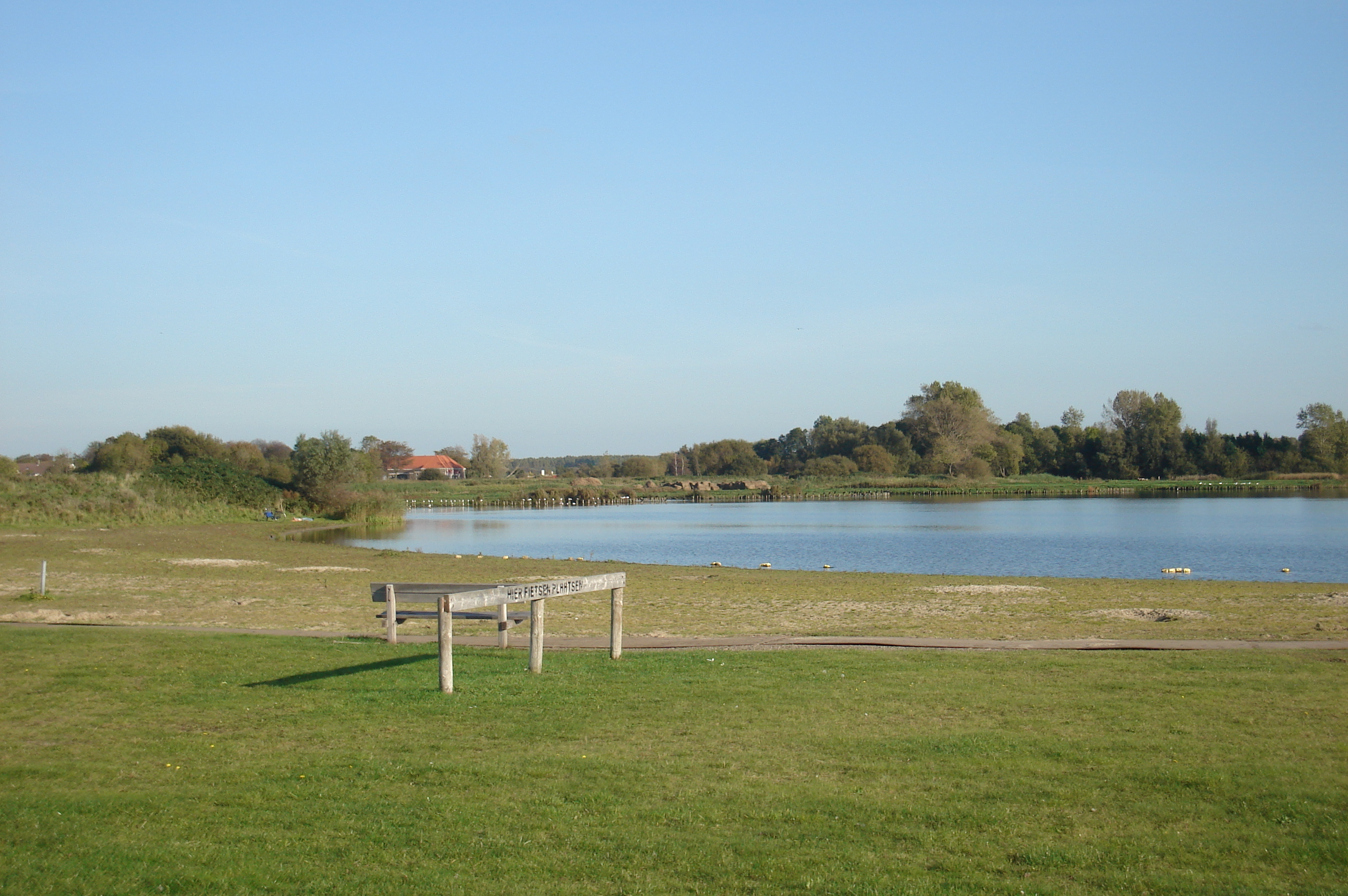 Veerplas artificial lake near Haarlem